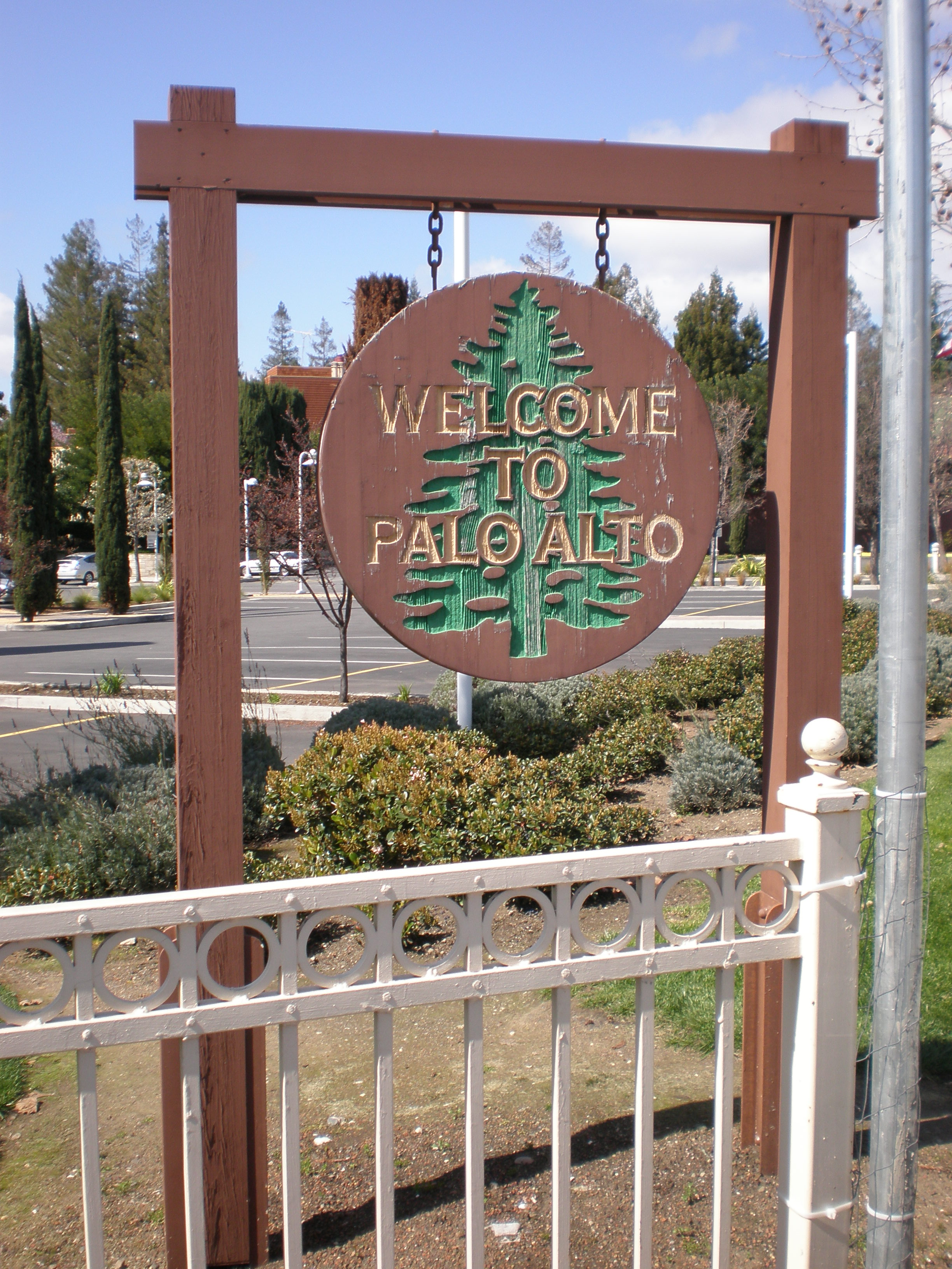 A welcome sign in Palo Alto, California.